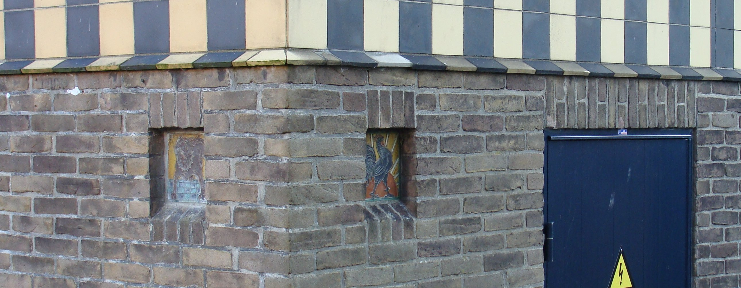 Distribution substation in the Dutch town of Enkhuizen, designed by Dutch architect J.B. van Loghem, 1881-1940. Detail with tiles of Cock and Dog, probably designed by L.E.F. (Lambert) Bodart, 1872 - 1946 [1].